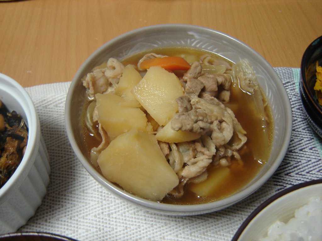 Nikujaga (meat and potato stew)Dinner, March 28